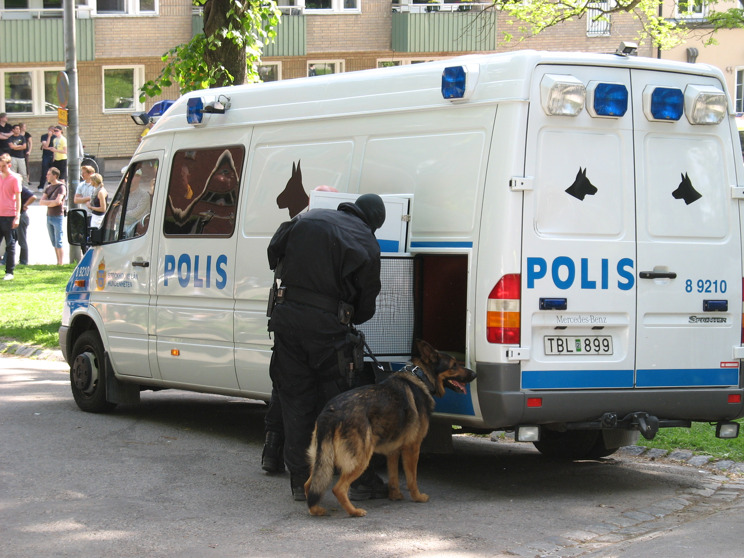 Swedish police dogs at nationalist demonstrations in Stockholm on National Day, 2007.